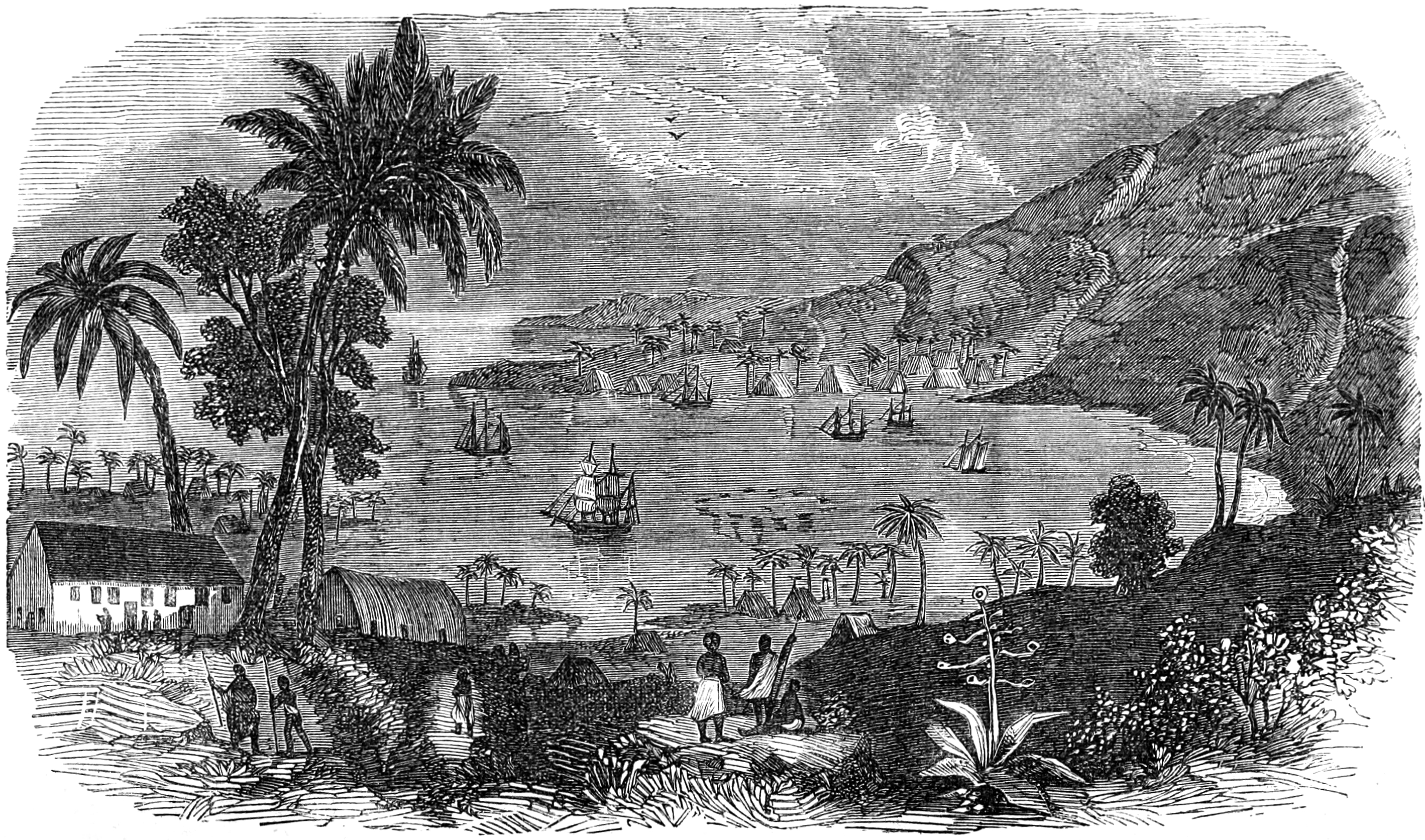 A sketch of Kealakekua Bay in 1864, by missionary Rufus Anderson